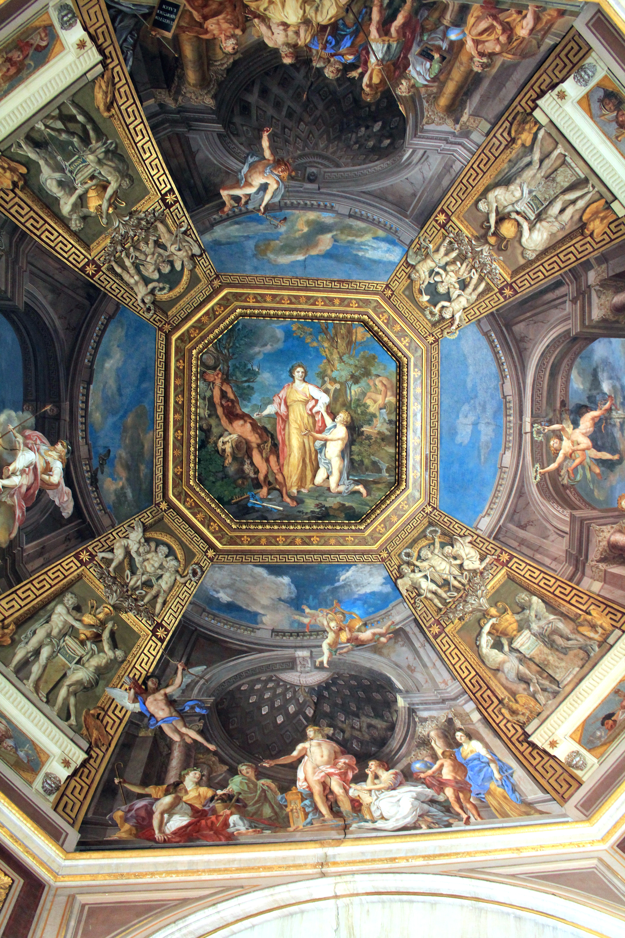 Ceiling of the Sala delle Muse (Vatican Museums) - Apollo and the Muses and related stories (artist: Tommaso Conca) in Vatican City, Rome